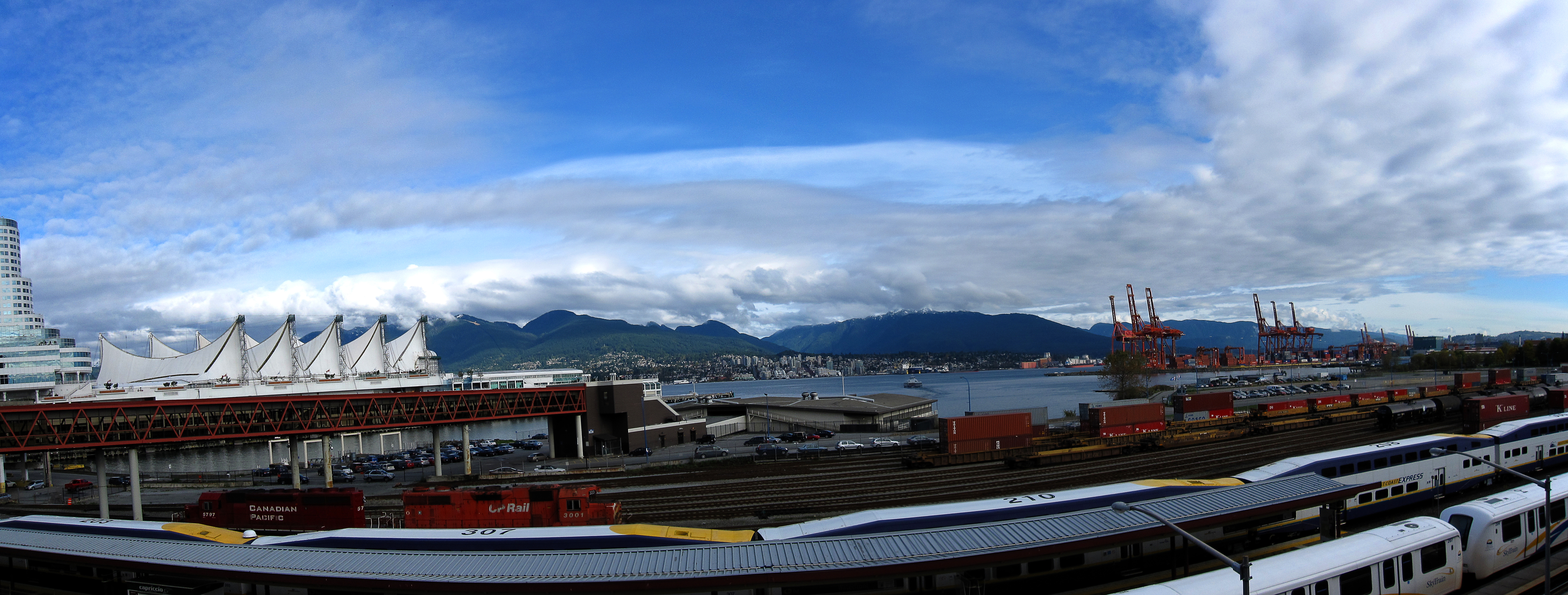 Vankouver docks